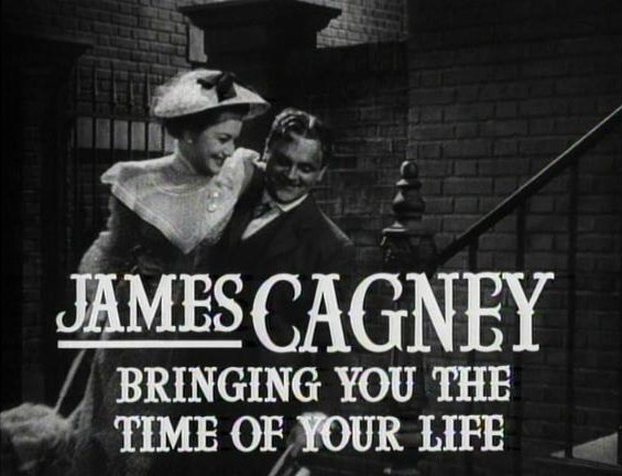 Frame from the public domain trailer for Warner Bros. 1941 film Strawberry Blonde hyping "James Cagney" in type